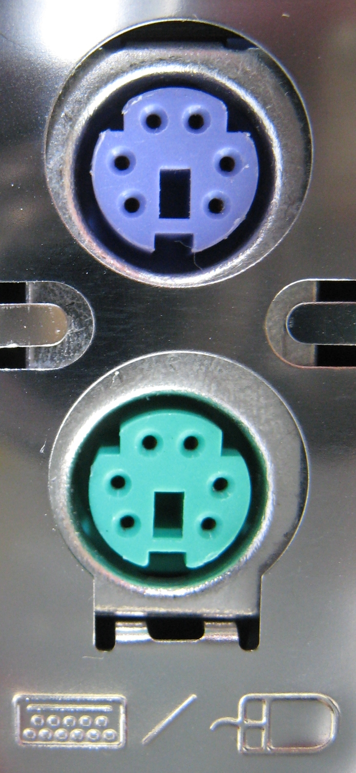 Two female PS/2 connectors for a computer keyboard and a mouse